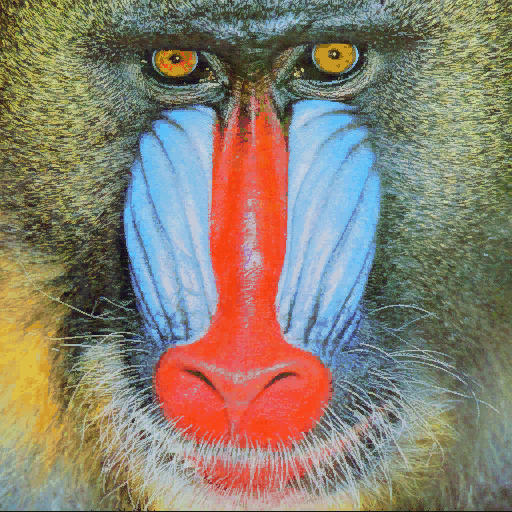 2-bits/pixel Color Cell Compression example of a Mandrill, from the USC SIPI Image Database, using K-means clustering for palette generation